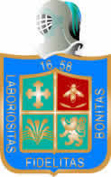 Rincon de Romos shield